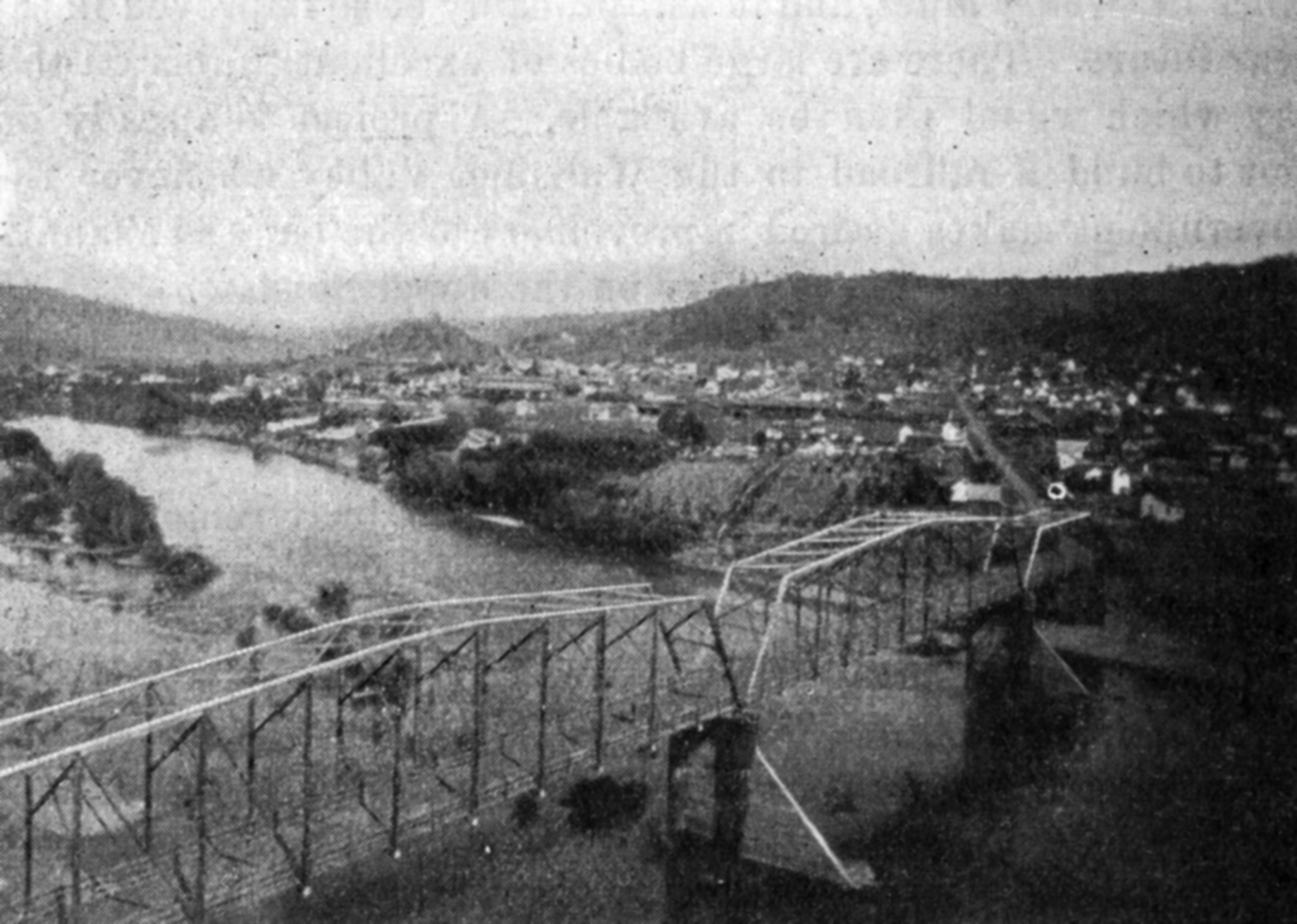 p. 150 from scans